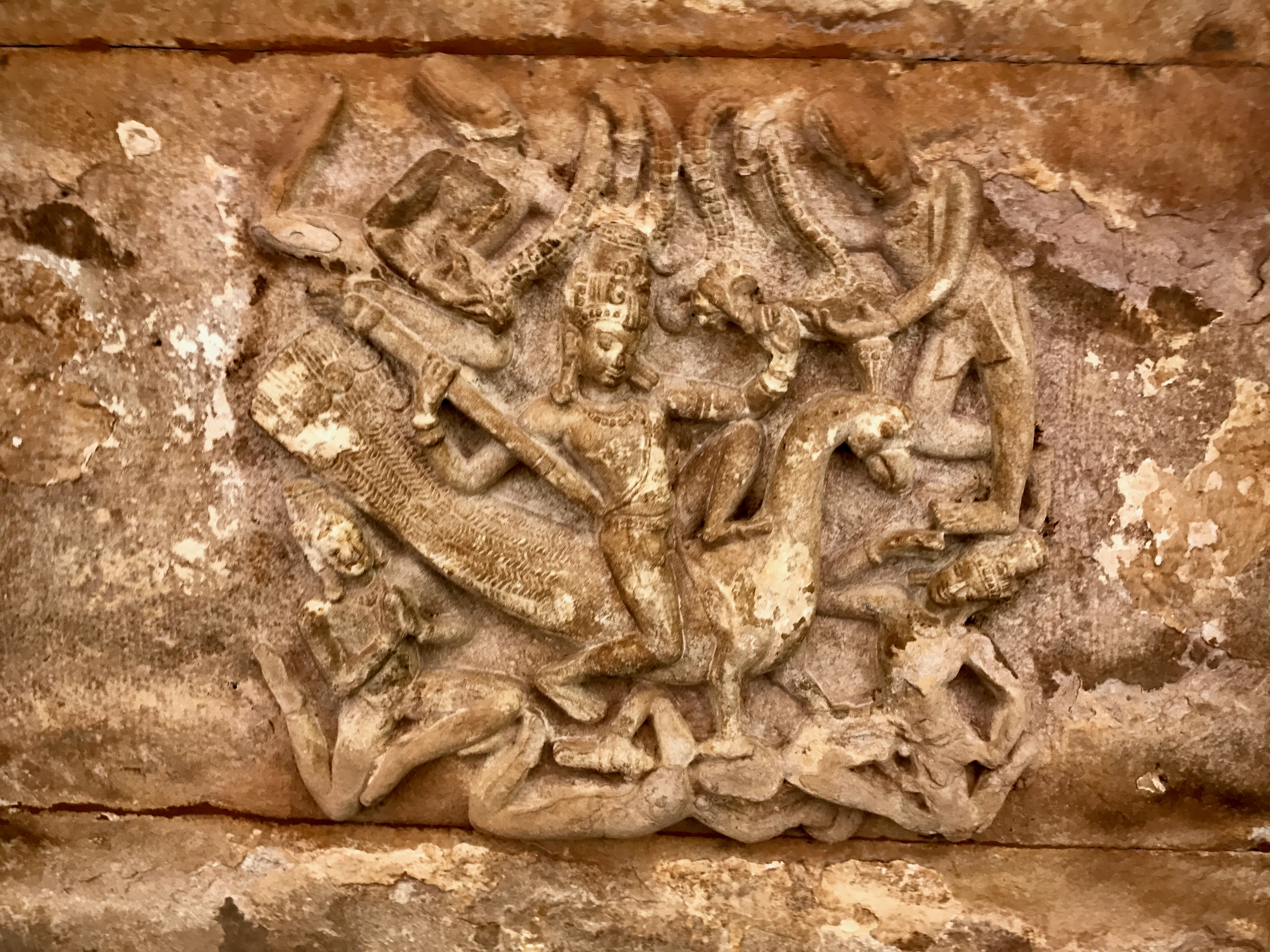 Aihole temples and monuments, also called Aivalli or Ayyavole or Aiholi temples and monuments, are a collection of over 100 temples built predominantly between 6th and 8th century near Malaprabha river in Karnataka. At this point, the river turns northwards towards the Himalayas which likely had significance as a location. Though defaced and damaged after the region was conquered by Muslim commanders of the Delhi Sultanate, the collection is one of the earliest surviving temples and window to ancient Indian arts, religious beliefs, society and architecture. Almost all temples are related to Hinduism, but these co-exist with a few Jain temples of this period and one Buddhist monument. Both north Indian and south Indian styles fuse here, with monuments suggesting experimentation of ideas and building styles under the sponsorship of late Gupta period Hindu kingdoms, particularly the Calukyas and Rashtrakutas. The Hucchimalli Gudi is a Hindu temple dedicated to Shiva. The temple is relatively small, but includes architectural elements found in major later Hindu temples, such as a mukha-mandapa, a sabha-mandapa and a gabha-griha. The temple was likely built between the 6th and 8th century, and it features kama / artha scenes such as amorous couples. The temple shows images of Garuda, Brahma and Surya. The entrance of the main shrine have damaged carvings of goddess Ganga and Yamuna. The sabha-mandapa, likely used for social events such as weddings has images of Indra and Kubera. The ceiling of the temple has a carved image of one headed Kartikeya on a peacock in warrior attire with dancing angels. Near the temple is a public utility water tank. The temple and tank show images of Durga killing buffalo demon (Mahishasuramardini) and panels showing fables from the Hindu text Panchatantra.